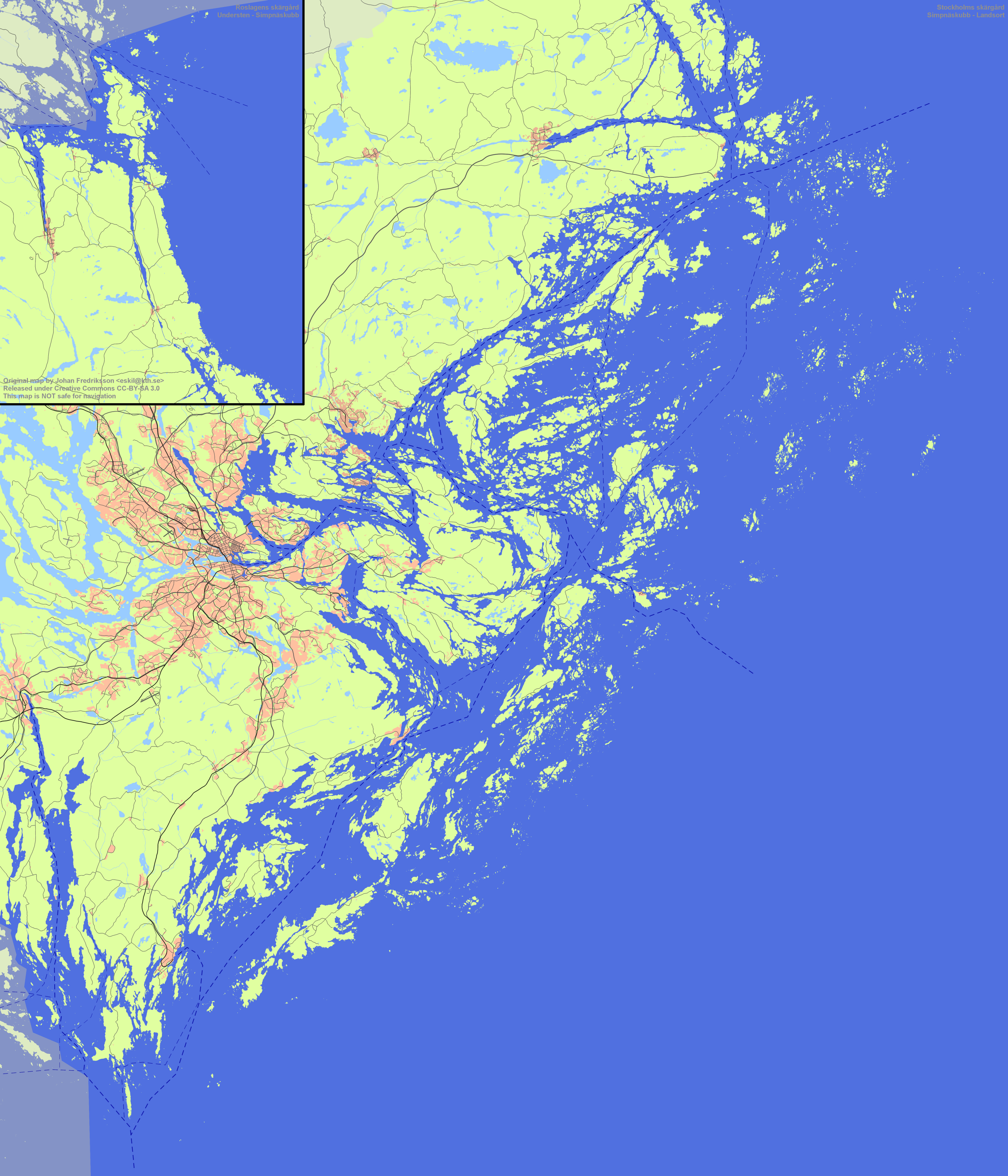 Overview map of Stockholm archipelago This map is not safe for navigation!